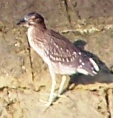 My own photo